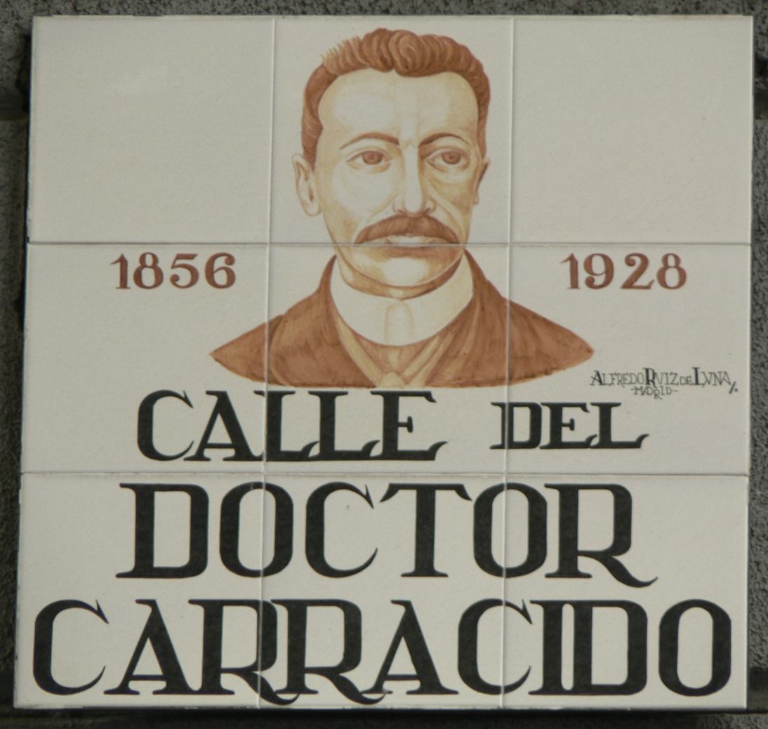 Sign of Calle del Doctor Carracido (street, Centro district) in Madrid (Spain).